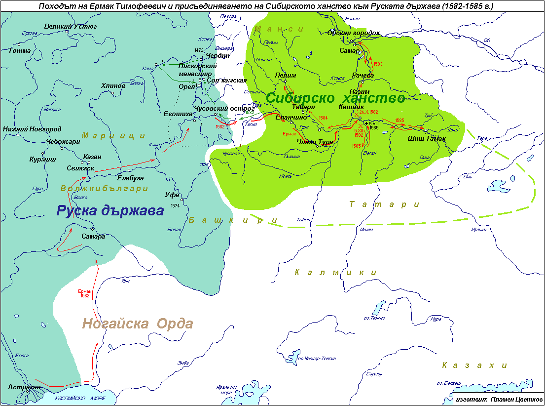 Map of Rus and Siberia Khanate